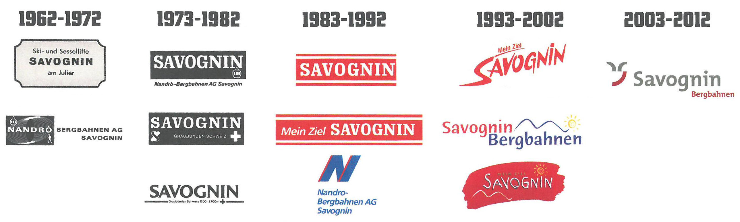 Former Logos of Savognin Bergbahnen